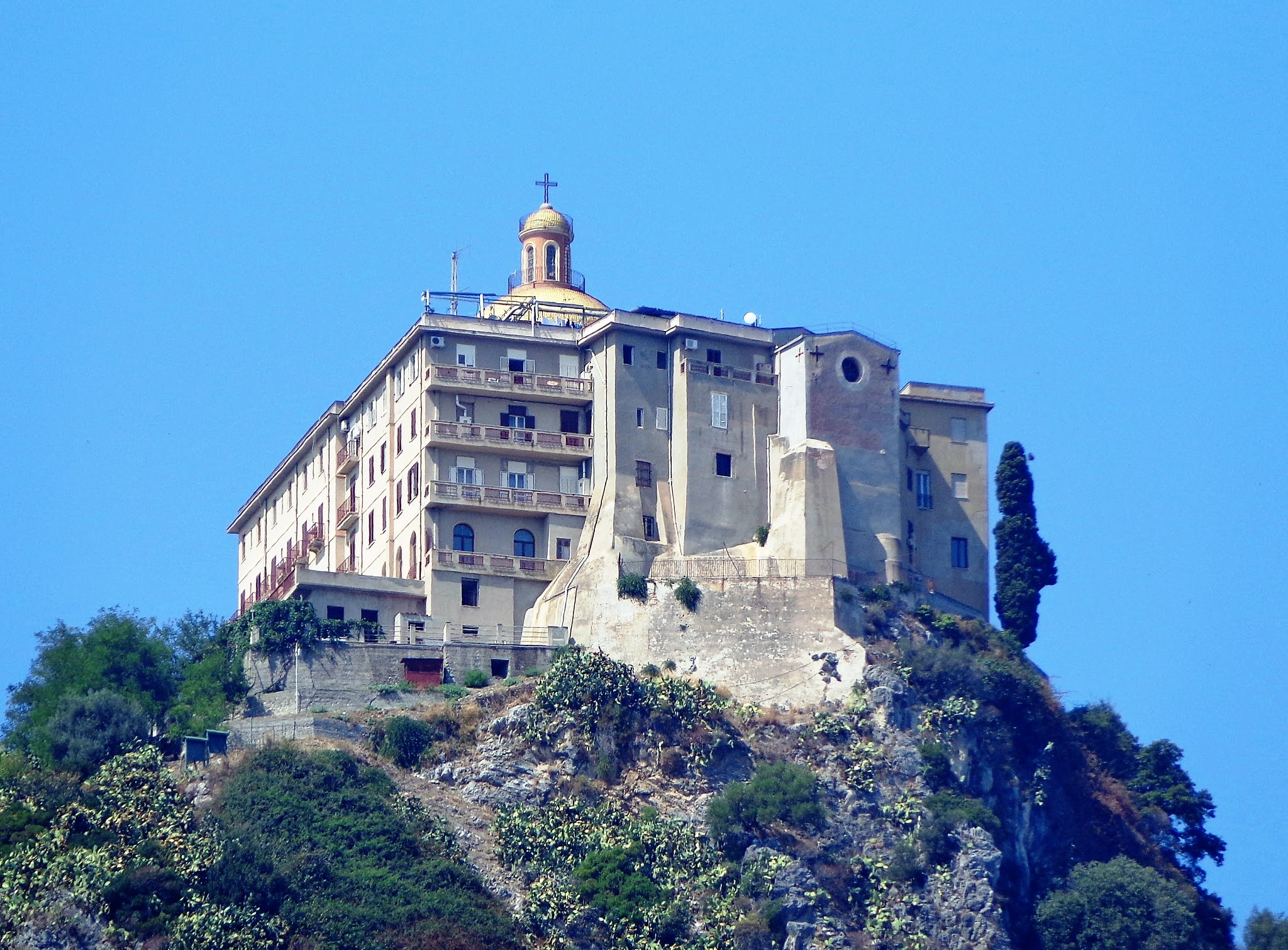 Il Santuario visto dai Laghetti.